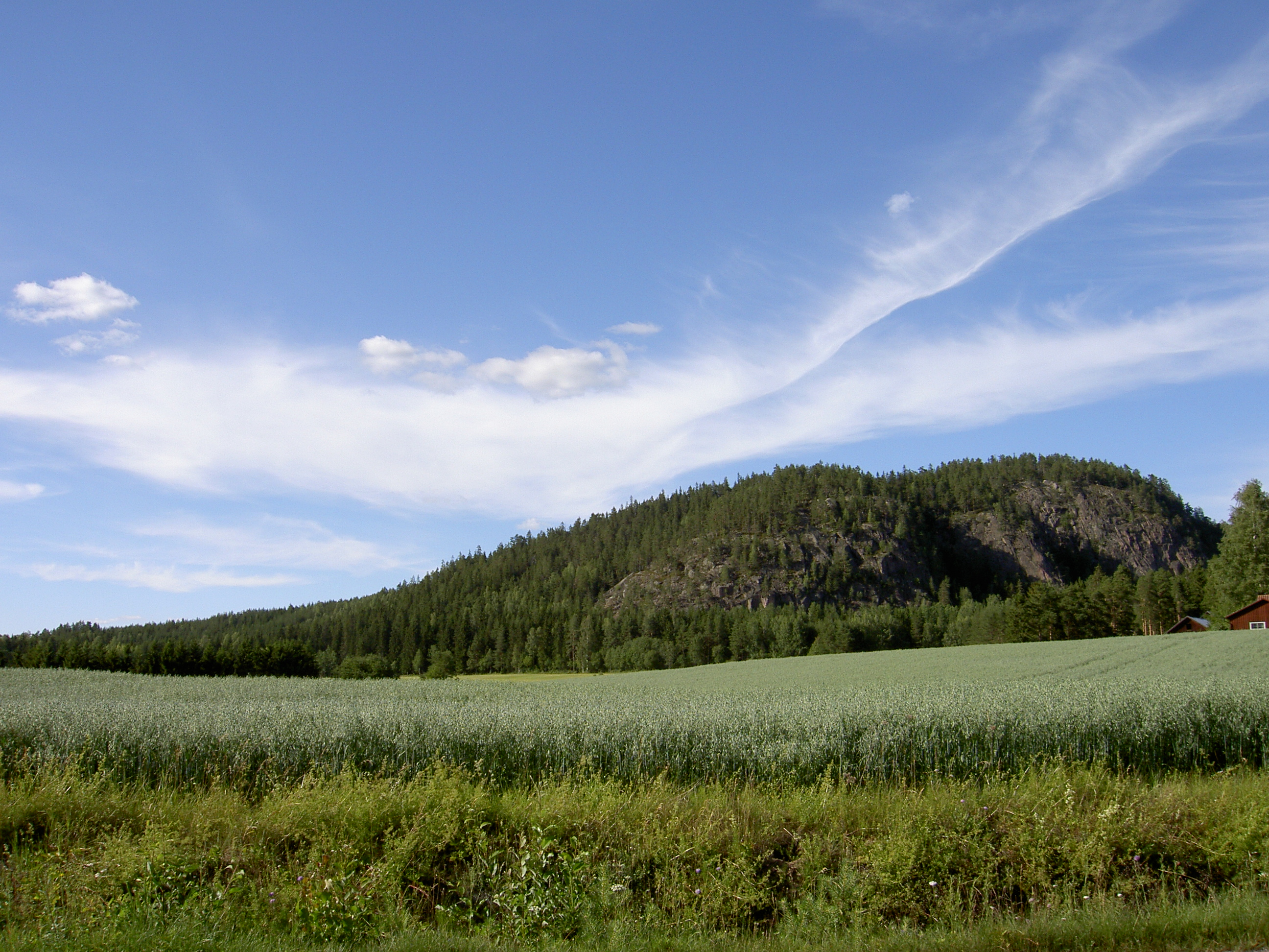 Bispbergs klack, a mountain in Säter municipality, Sweden.